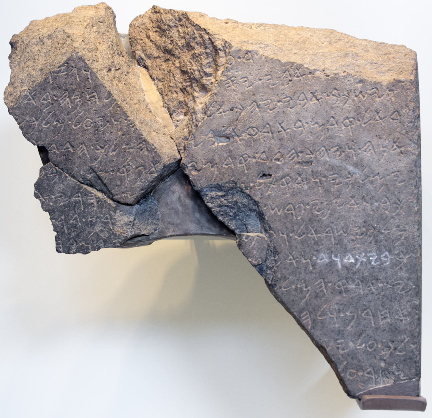 The Tel Dan Stele on display at the Israel Museum, Jerusalem